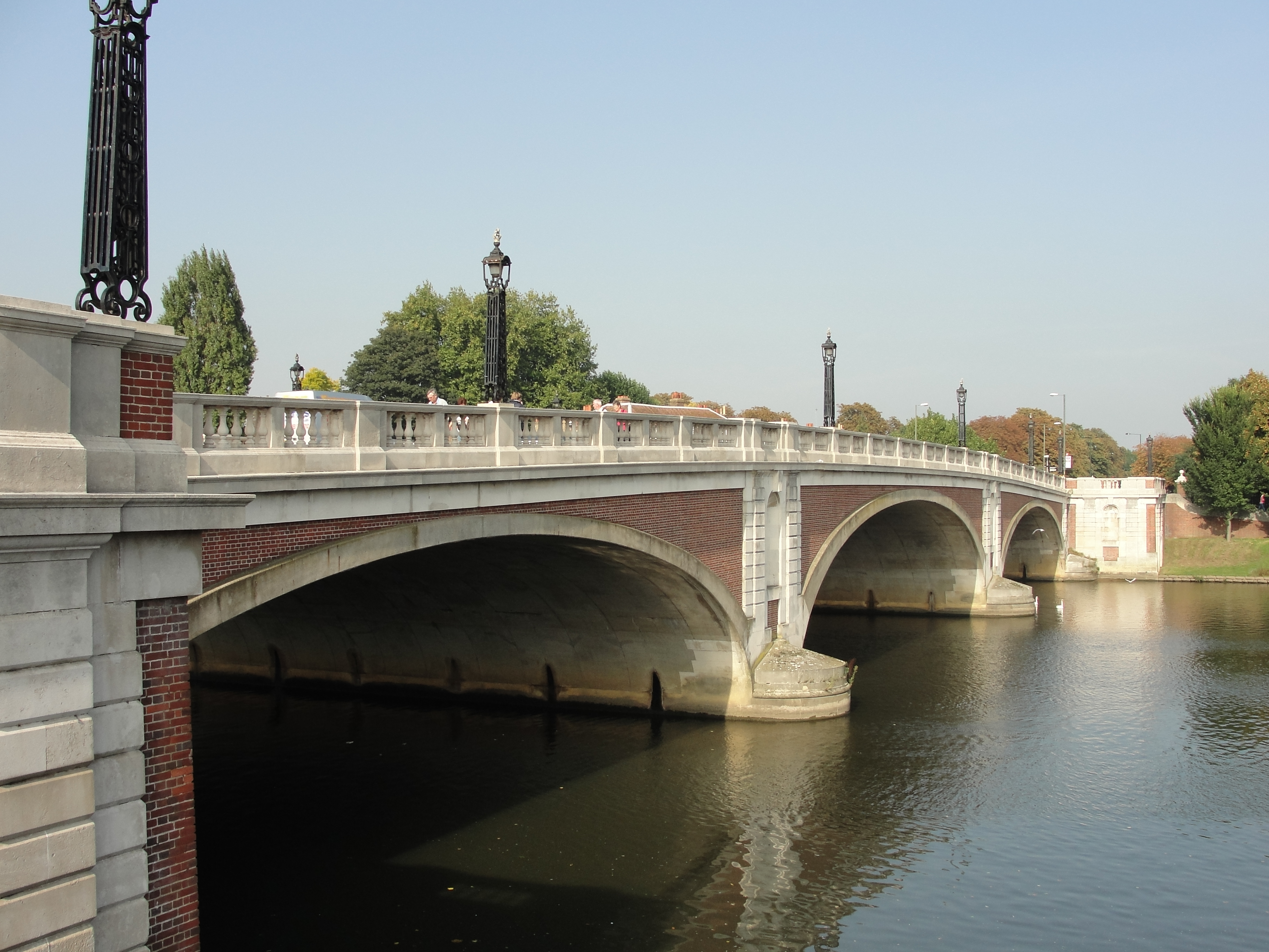 Hampton Court Bridge